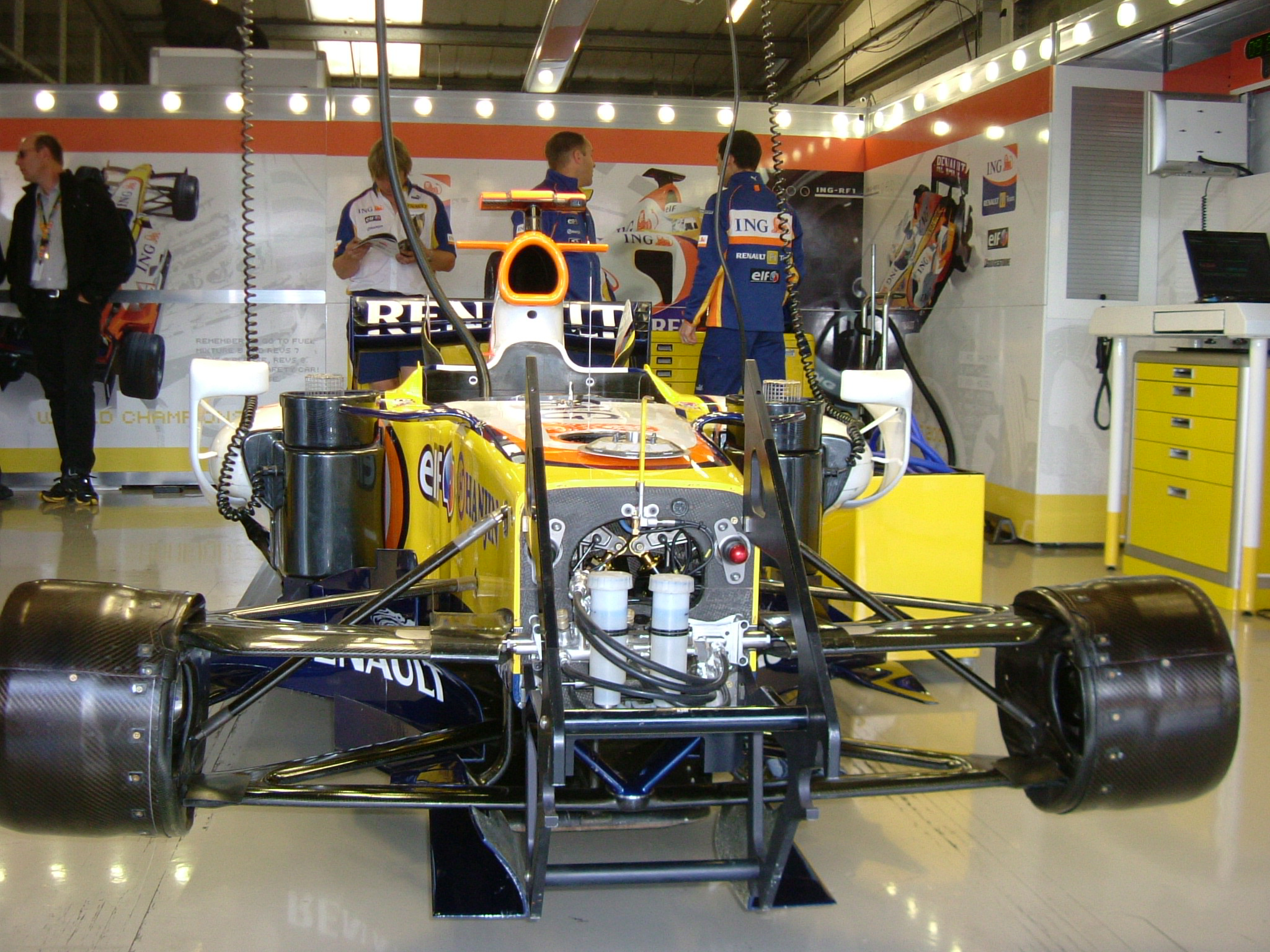 Giancarlo Fisichella's Renault R27 in the Pit Garage being prepared for the 2007 British Grand Prix